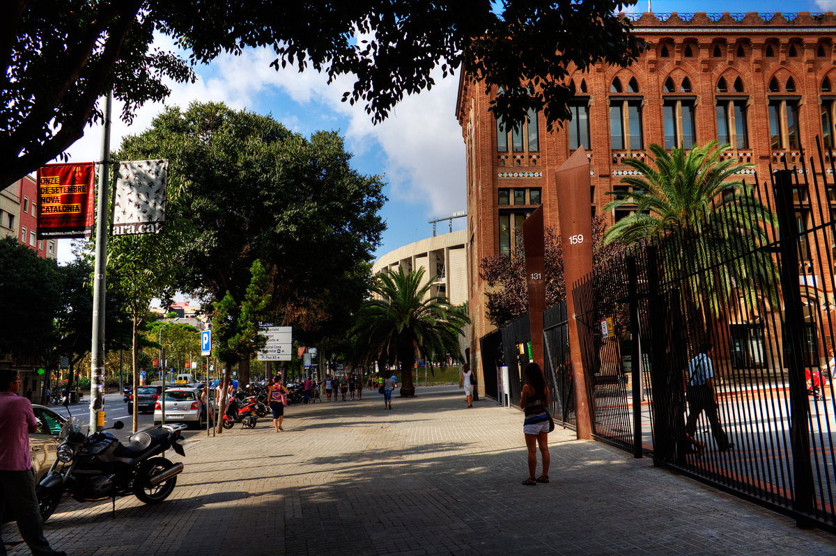 Dzielnica Les Corts